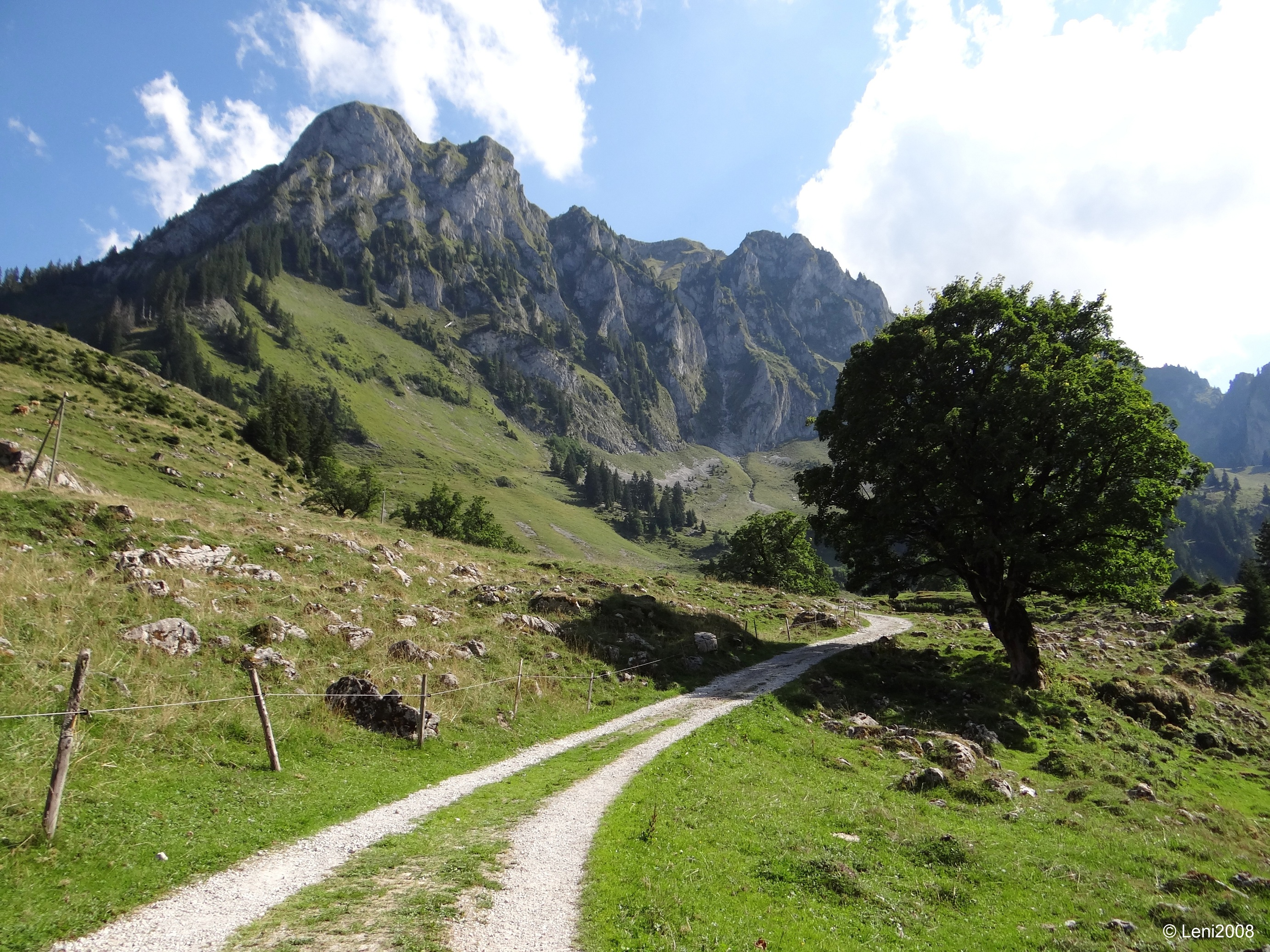 View of Spitzflue and Fochsenflue